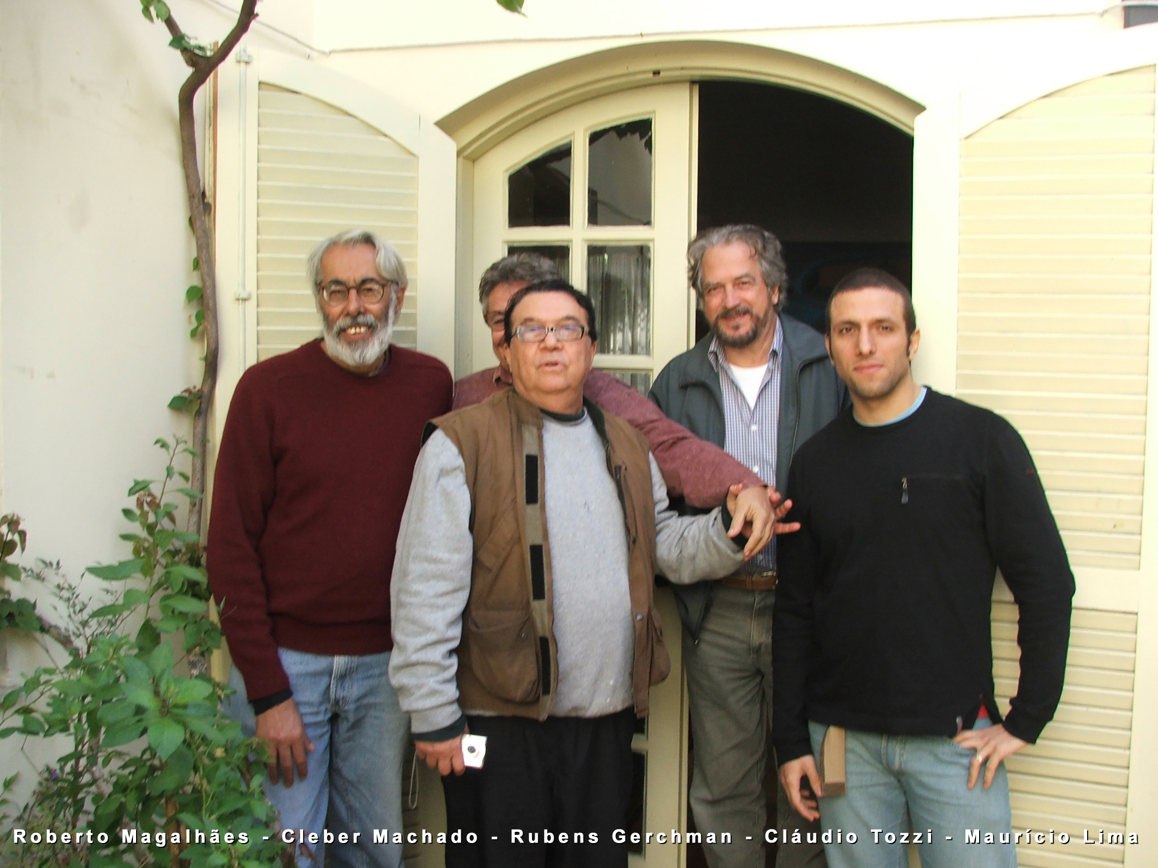 RG and Friend - Roberto Magalhaes, Cleber Machado, Rubens Gerchman, Cláudio Tozzi and Maurício Lima